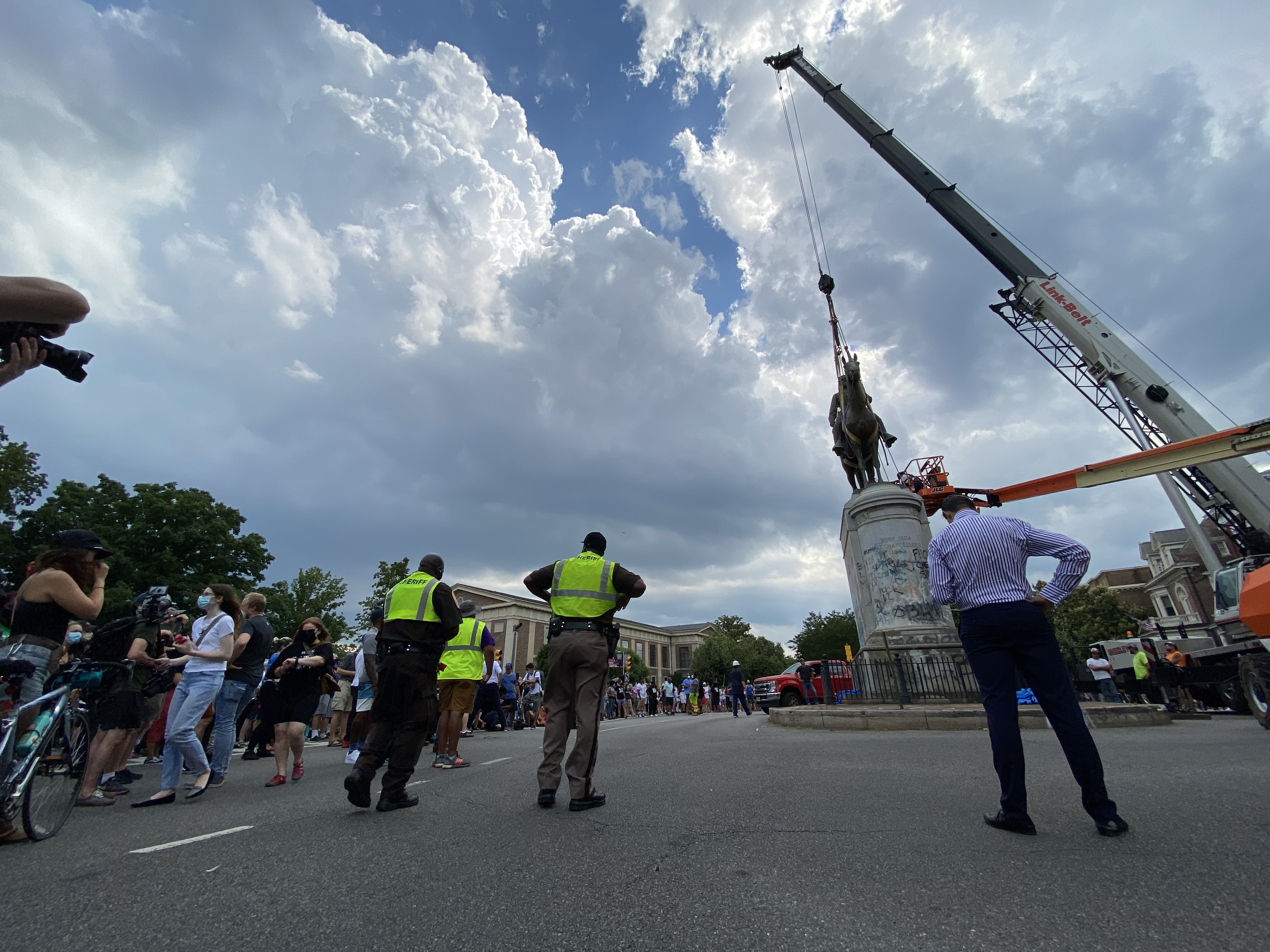 Removal of Stonewall Jackson statue from Monument Avenue in Richmond, Virginia on July 1, 2020